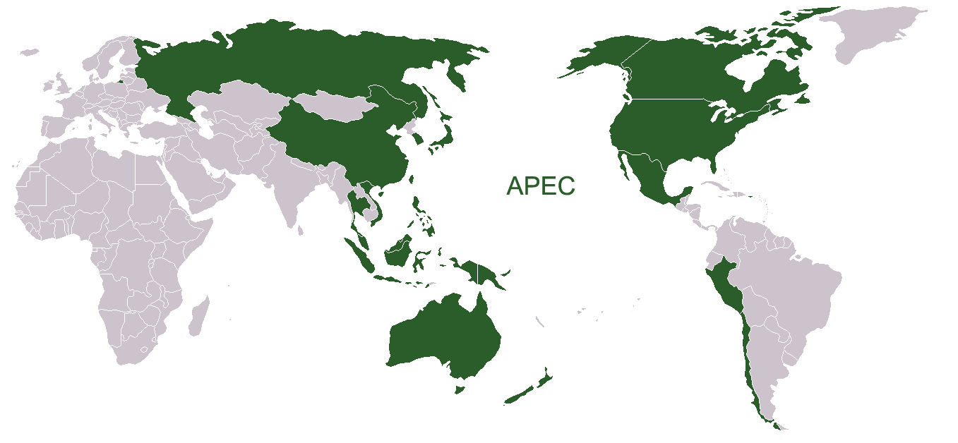 Membership maps of APEC